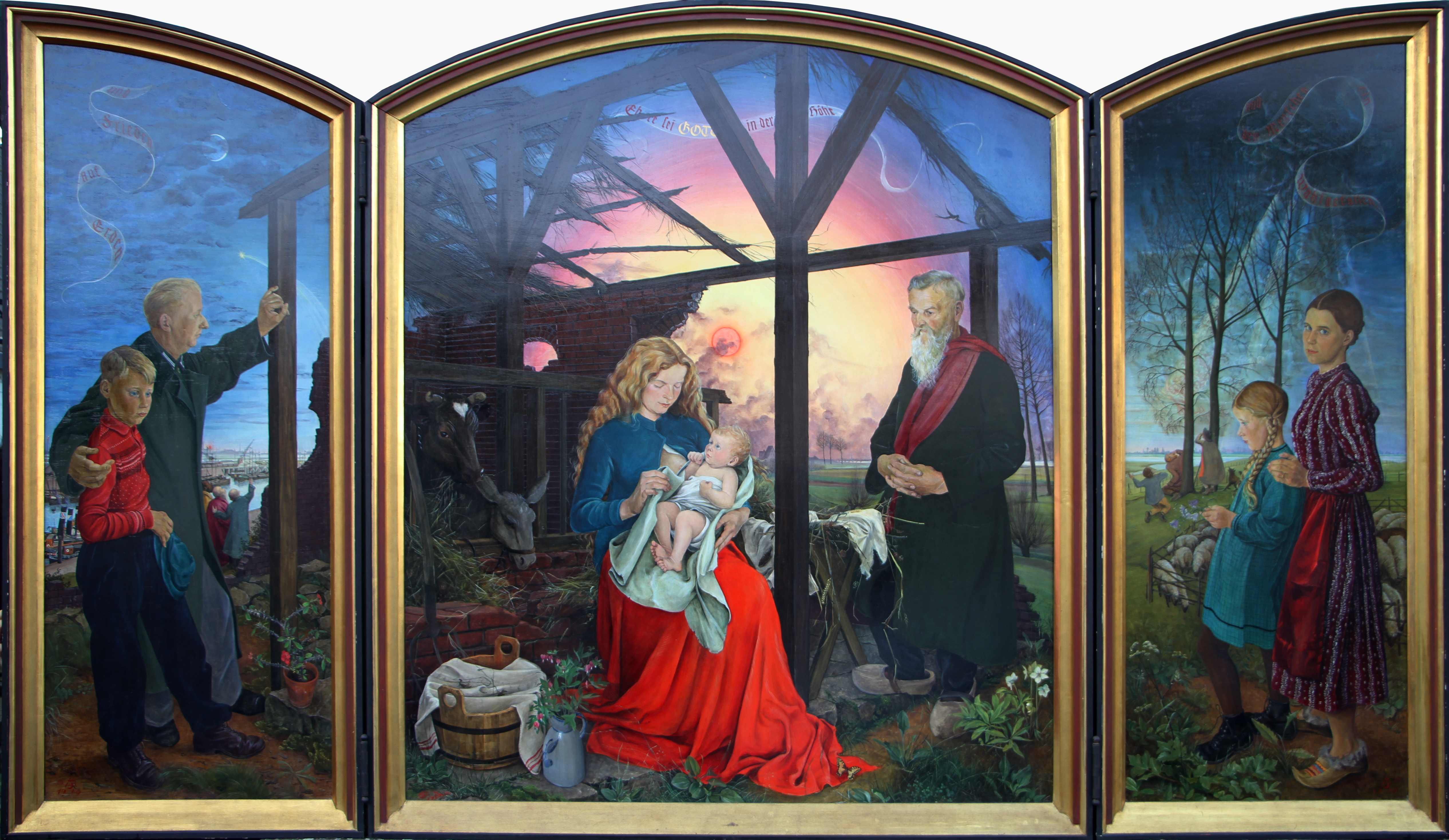 Altarbild of Liselotte Schramm-Heckmann, 1938 to 1942